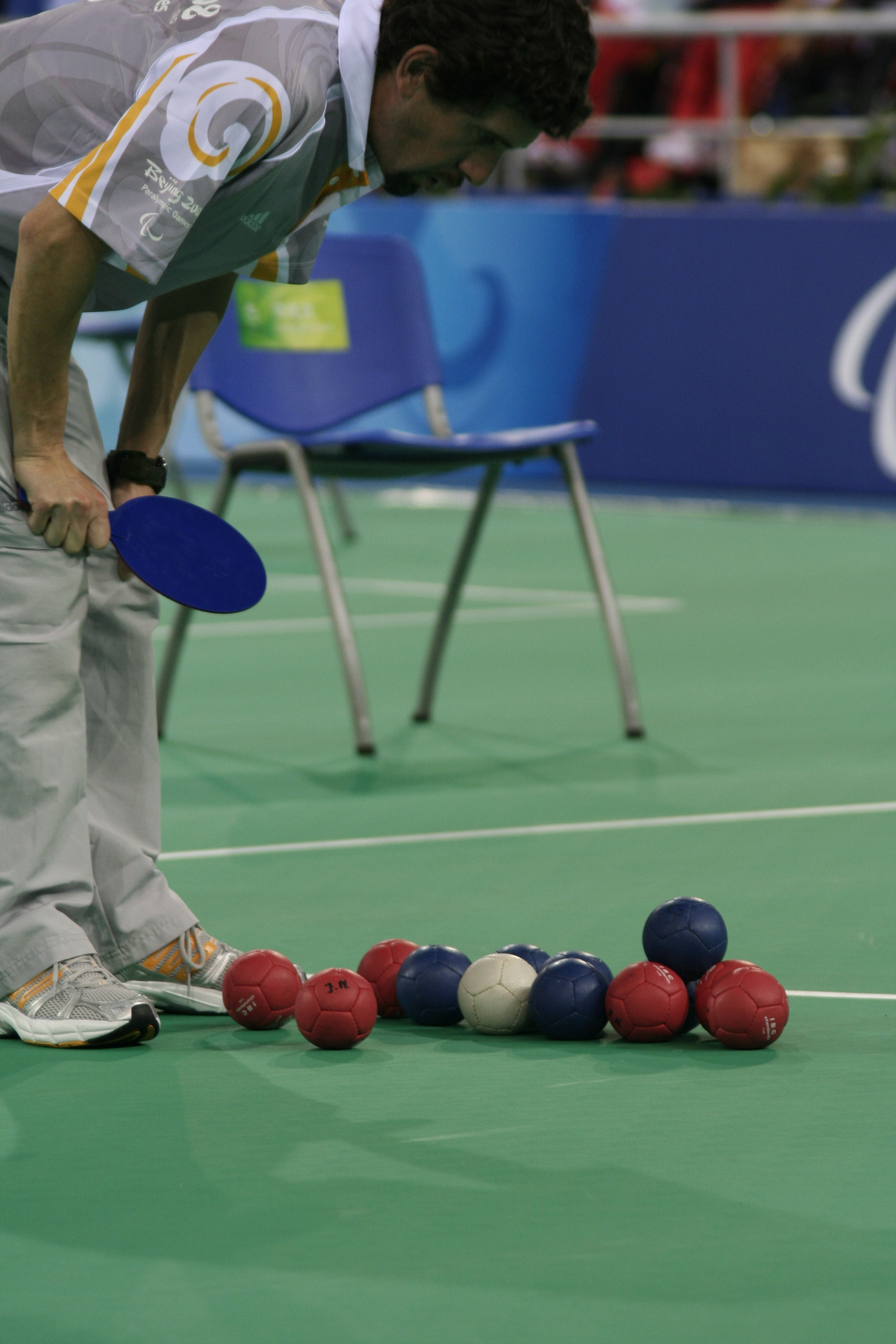 Judge challanges